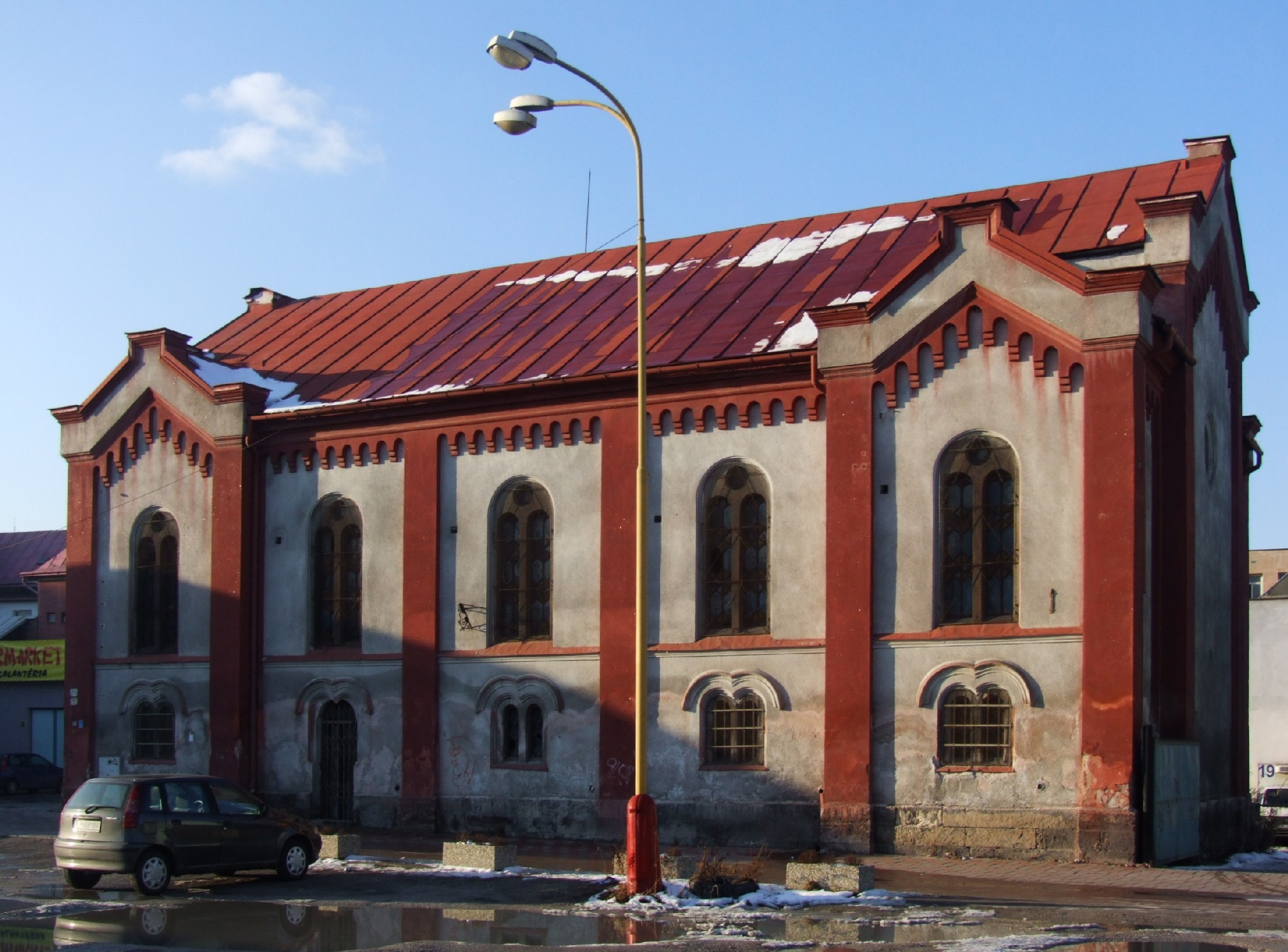 Synagogue in Ružomberok, Slovakia This medium shows the protected monument with the number 508-10513/0 in the Slovak Republic.